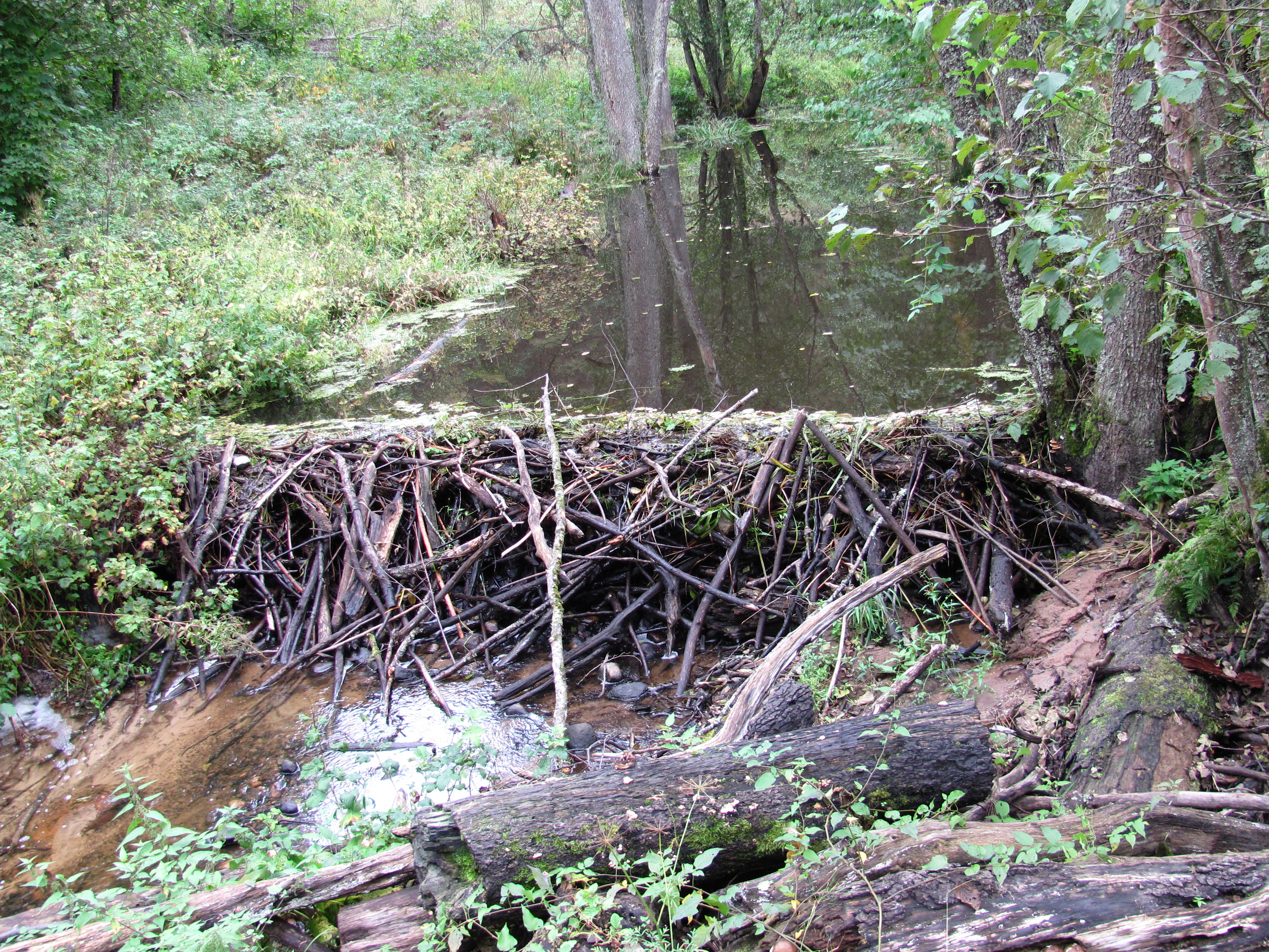 Beaver dam on Altja creek, Lahemaa, Estonia.